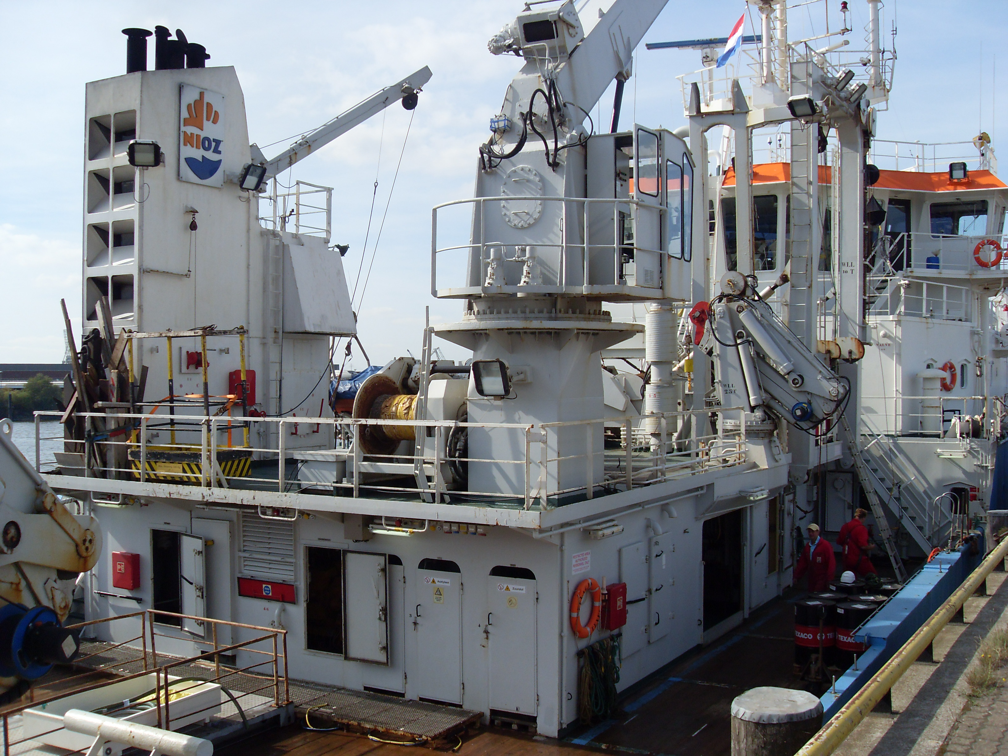 R/V Palagia, a 66 meter long research vessel from the Nederlands Instituut voor Zeeonderzoek Netherlands Institute for Sea Research (NIOZ), build 1991 in Hamburg